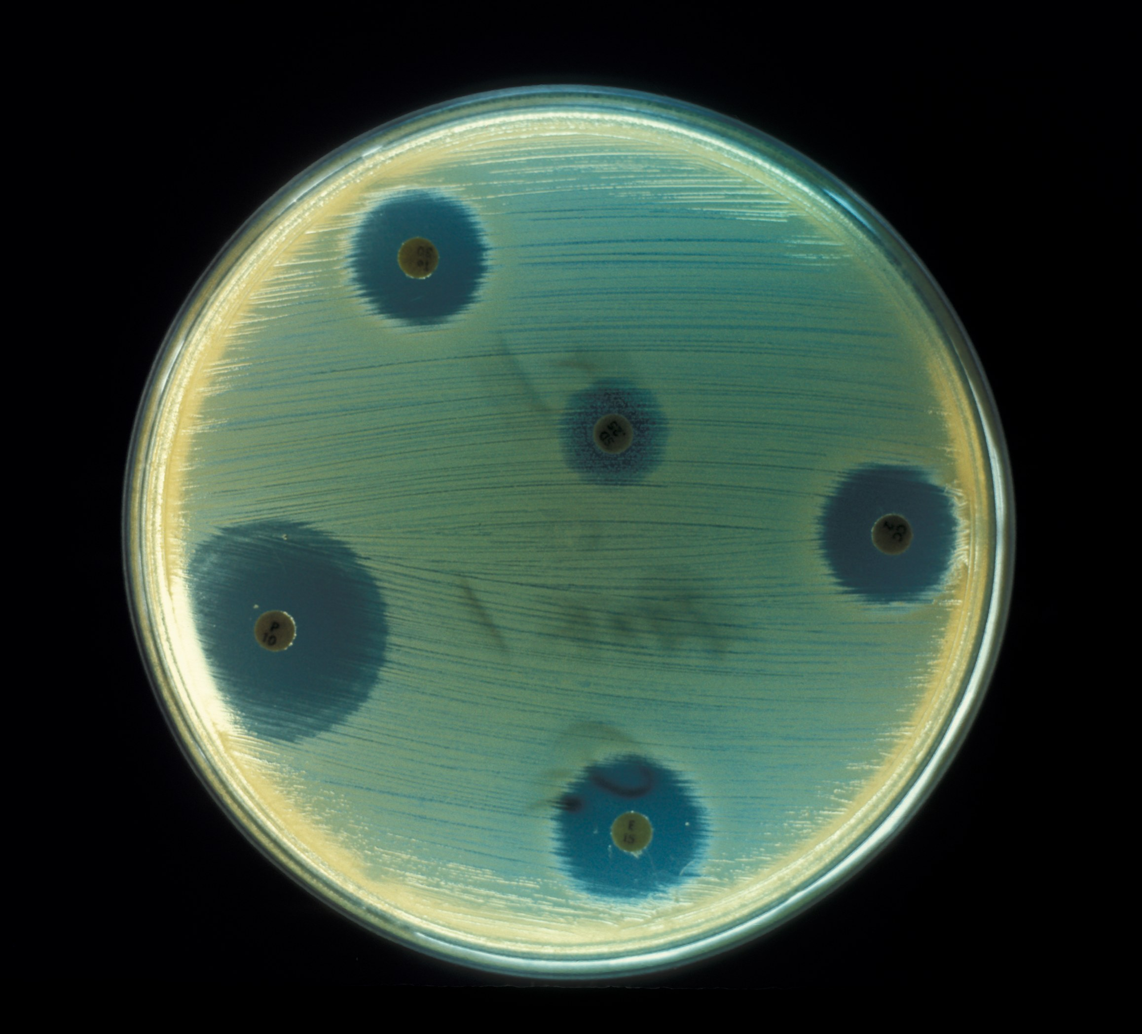 Staphylococcus aureus - Antibiotics Test plate